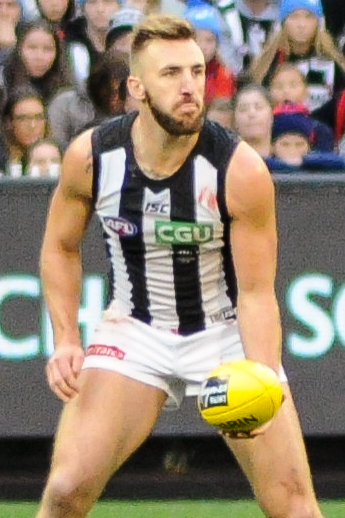 Lynden Dunn during the AFL round twelve match between Melbourne and Collingwood on 12 June 2017 at the Melbourne Cricket Ground in Melbourne, Victoria.